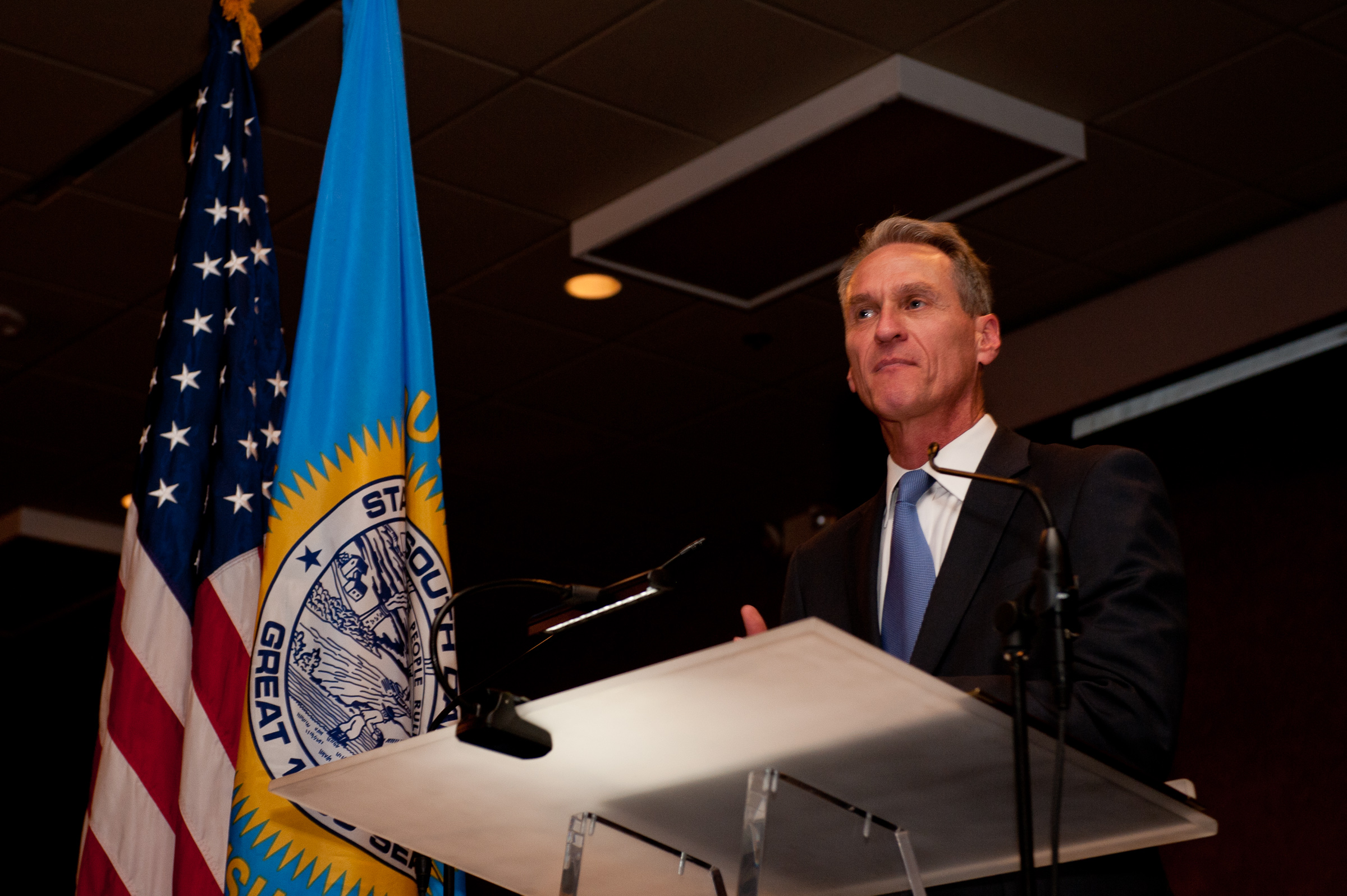 South Dakota Gov. Dennis Daugaard thanked the Airmen of Ellsworth Air Force Base, past and present, for the vital role they have played in our nation’ defense, during a 70th Anniversary Celebration Dinner in Rapid City, S.D., May 19, 2012. The event began with a social hour, followed by dinner and addresses by Daugaard and Air Force Chief of Staff, Gen. Norton Schwartz.